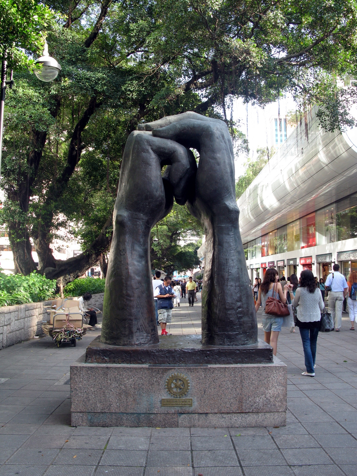 HK Parklane Avenue Statue in Tsim Sha Tsui